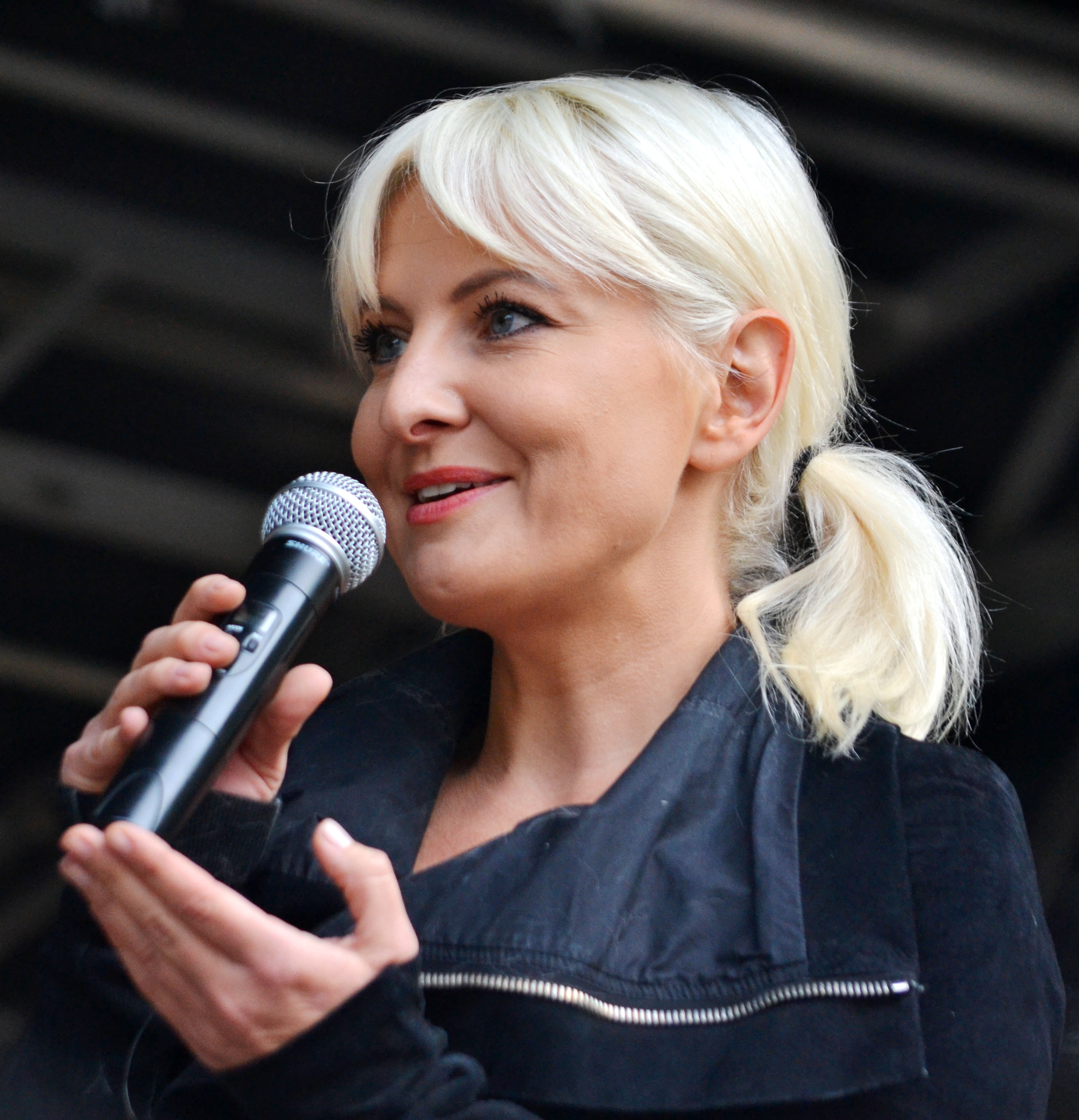 Bára Nesvadbová, Czech writer